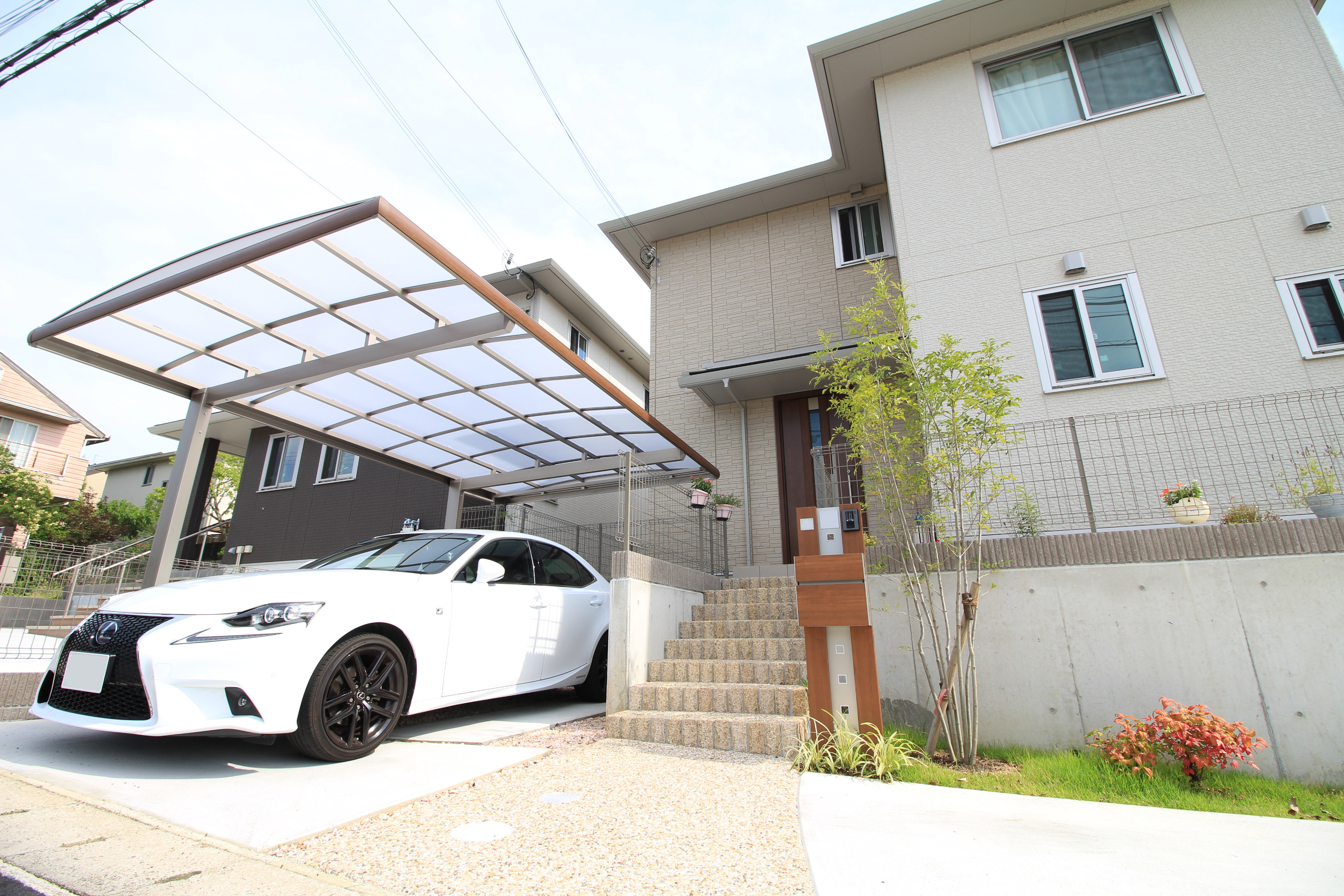 2016-Carport in Japan Himawari Life Co., Ltd.